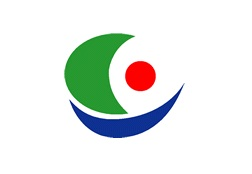 Flag of Kamijima, Ehime